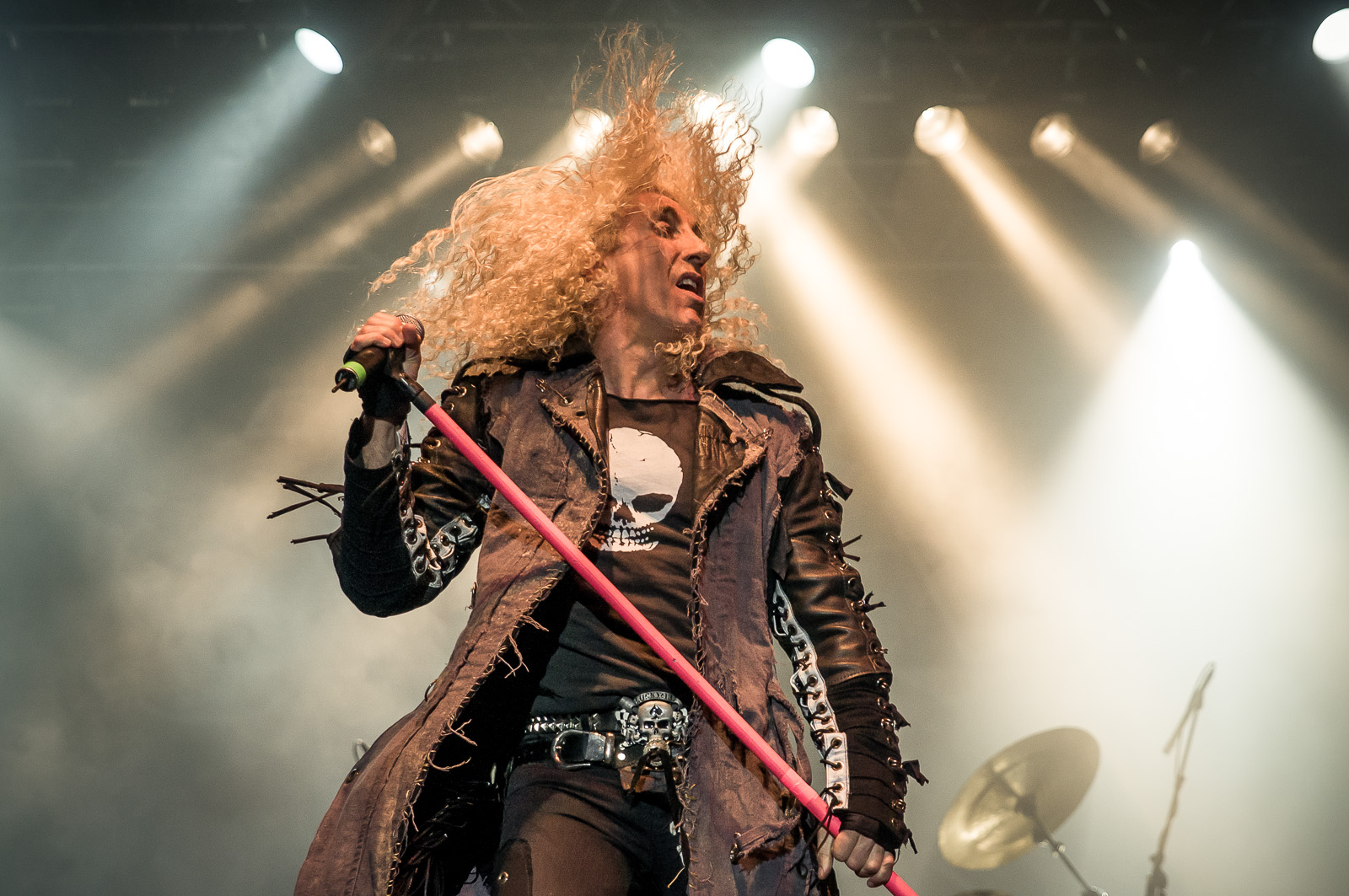 Twisted Sister performing at Norway Rock 2010 - Dee Snider